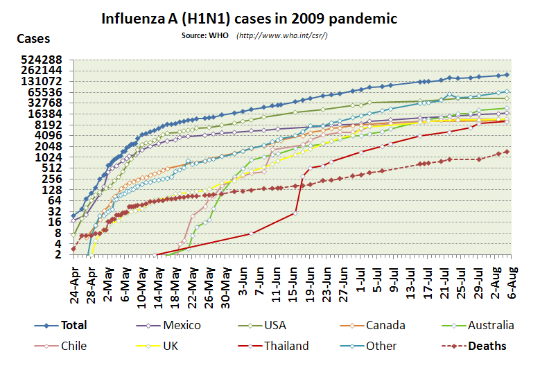 Development of H1N1 influenza cases in 2009. Semi-logarithmic version. Source: WHO figures.